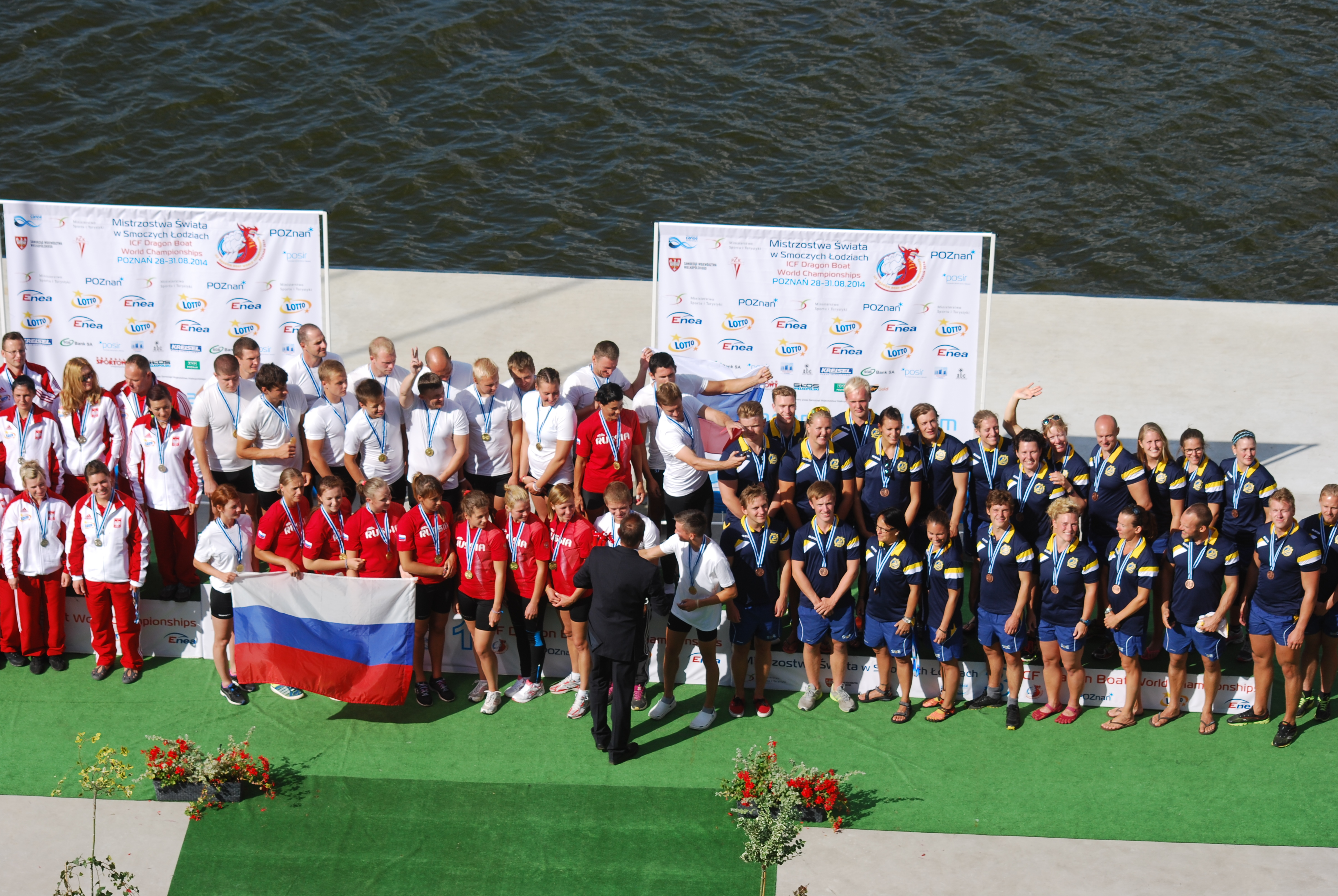 (ICF World Dragon Boat Racing Championships 2014 in Poznan, Poland. Standard boat senior mixed 500 meter medal ceremony. Gold to Russia, Silver to Poland and Bronze to Sweden.)